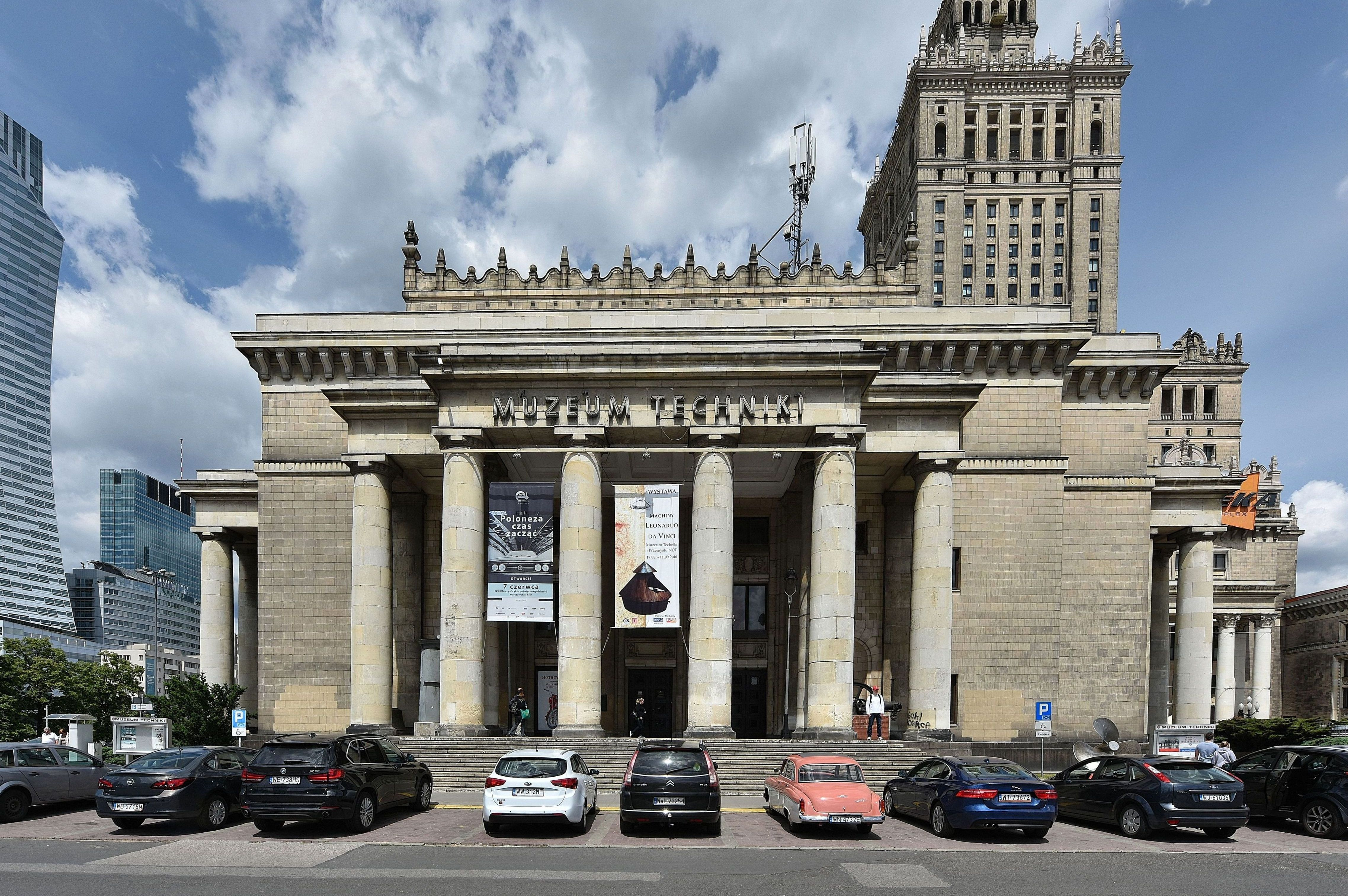 Entrance to the Museum of Technology in Warsaw